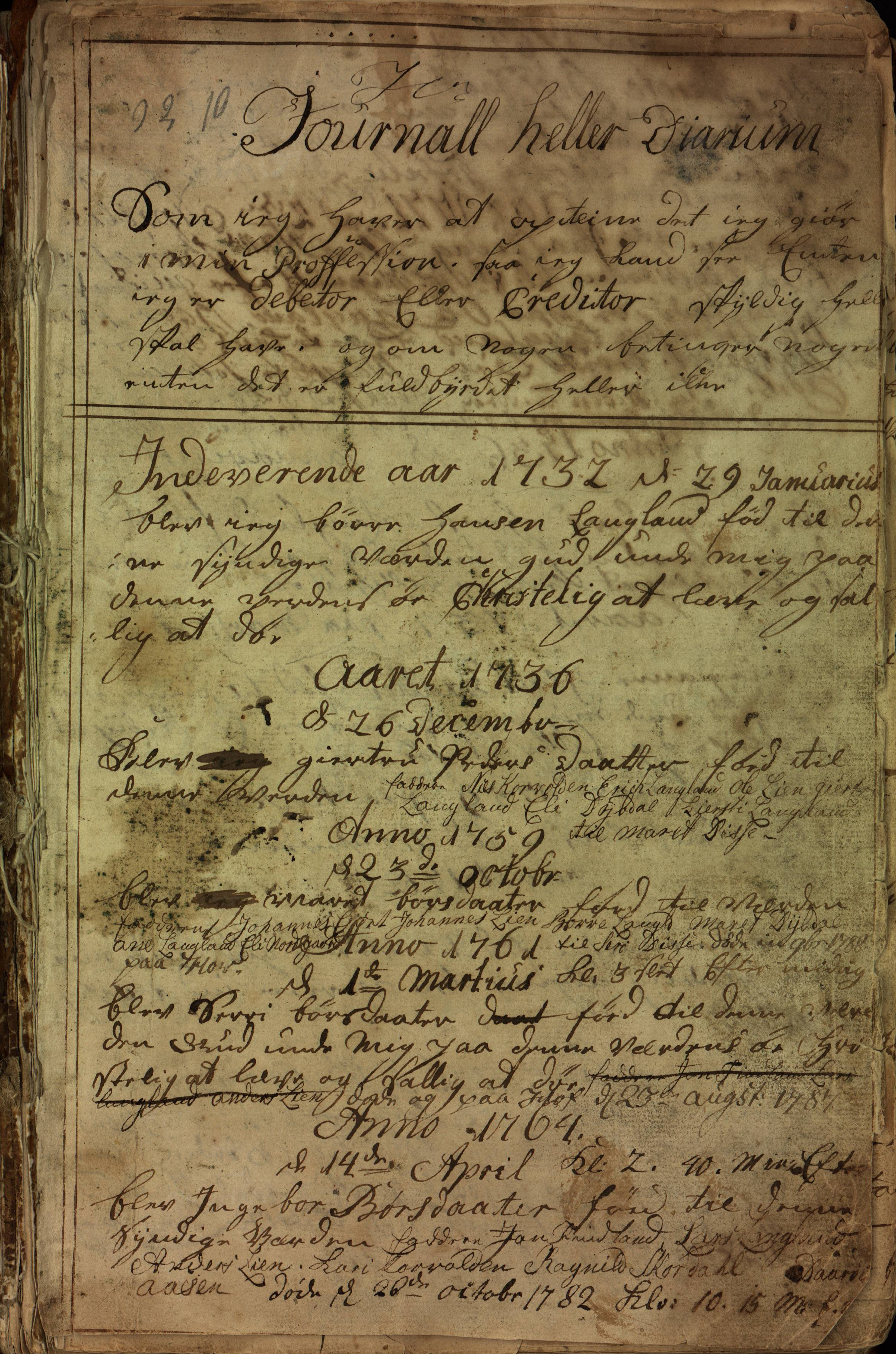 Første side i Børre Hansen Langlands dagbok